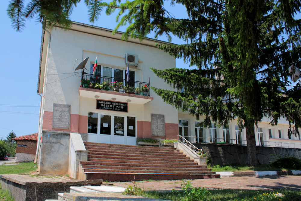 Zhelyava Culture club (Chitalishte) Народно Читалище "Мургаш", с. Желява